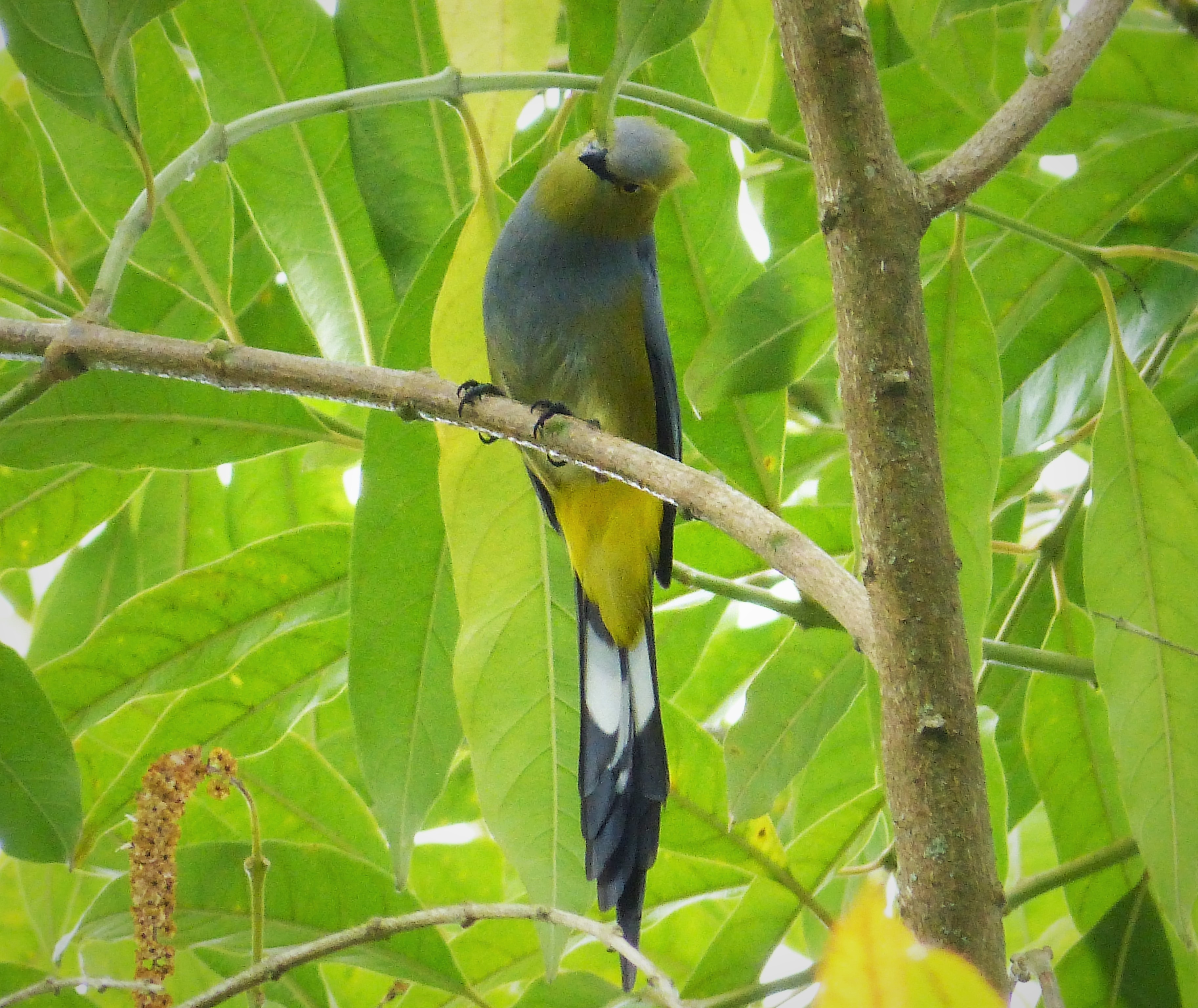 One of my favourite Birds, reminds me of a Cockateil. Tinsiara Rio Sereno, Chiriqui Province, Panama